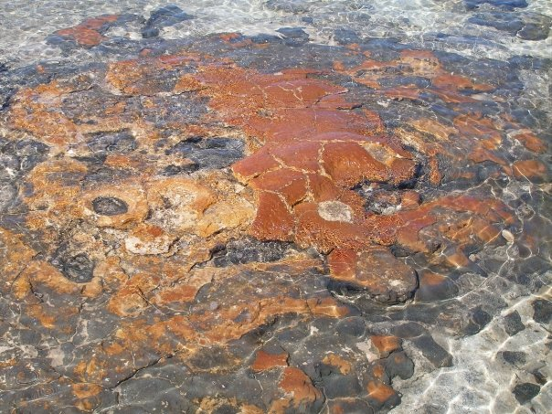 Stromatolites growing in Hamelin Pool Marine Nature Reserve, Shark Bay, Western Australia.